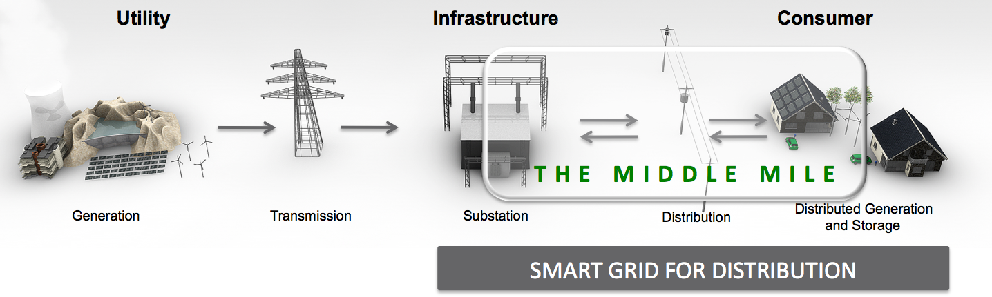 distribution smart grids